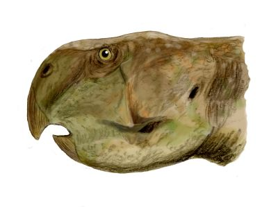 Head of Psittacosaurus sinensis, one of the numerous species of Psittacosaur from the Early Cretaceous of China, pencil drawing